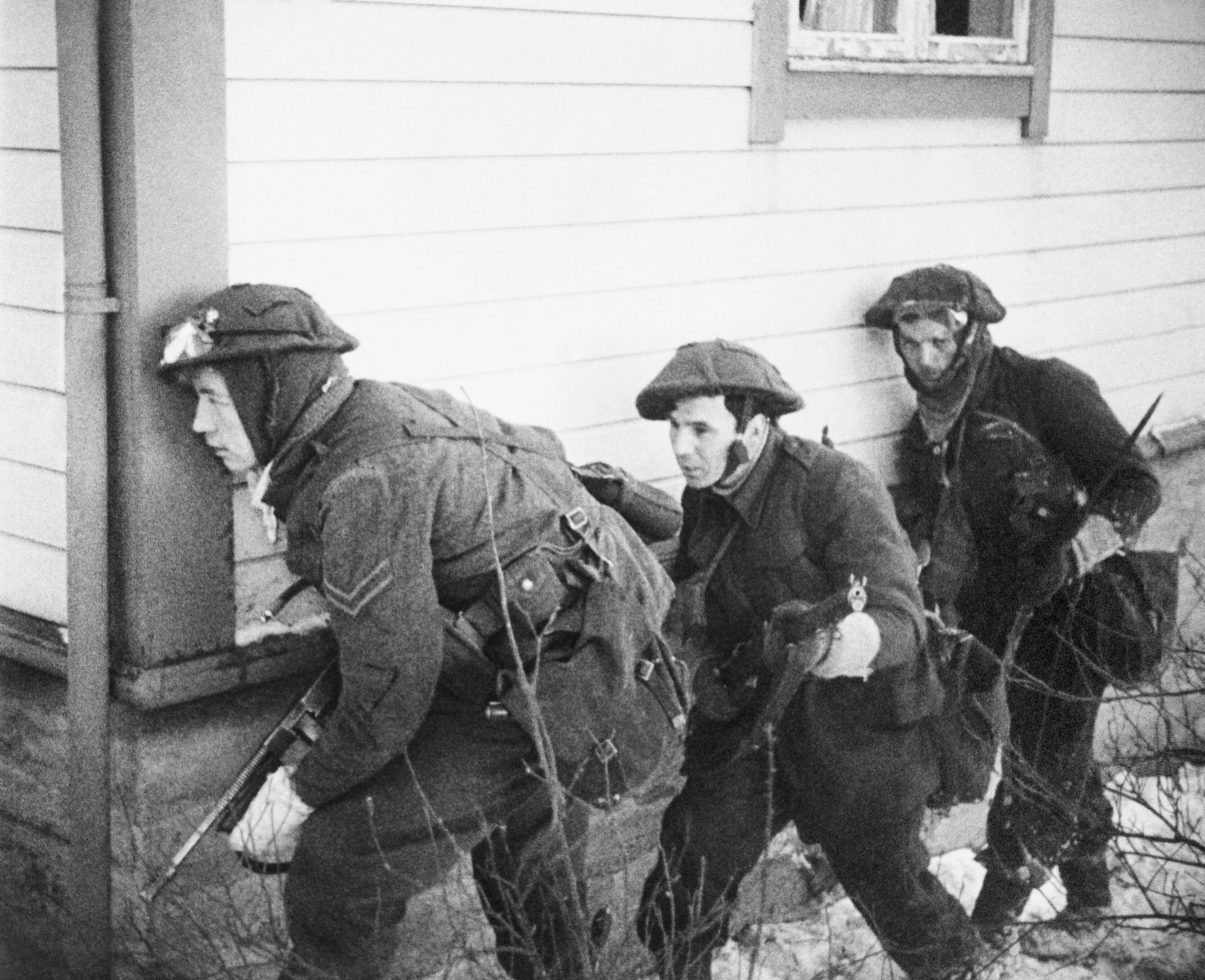 RAID ON VAAGSO, 27 DECEMBER 1941. British commandos in action during the raid. (Operation Archery)